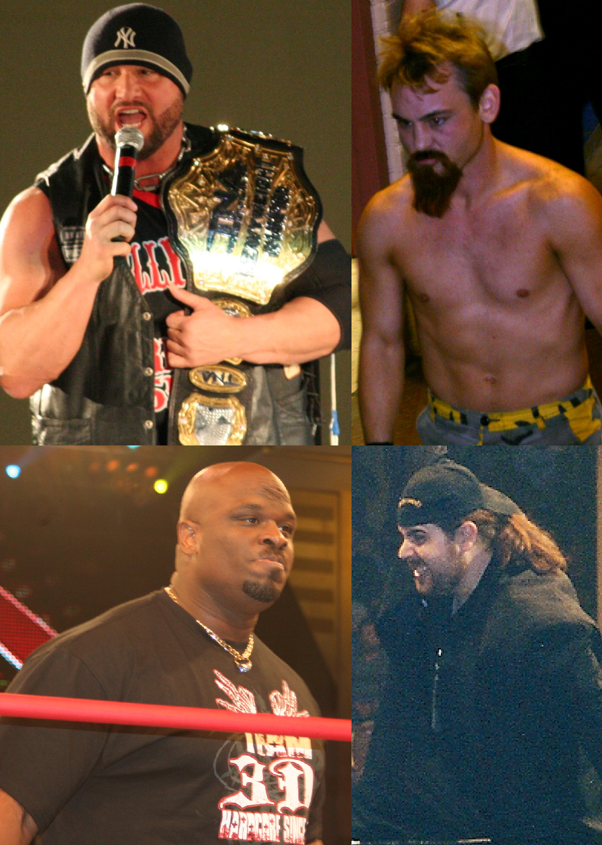 A composite image of The Dudley Brothers (clockwise from top right): Buh Buh Ray Dudley, Spike Dudley, Sign Guy Dudley, and D-Von Dudley. Other information This is a composite image created from four free use images.